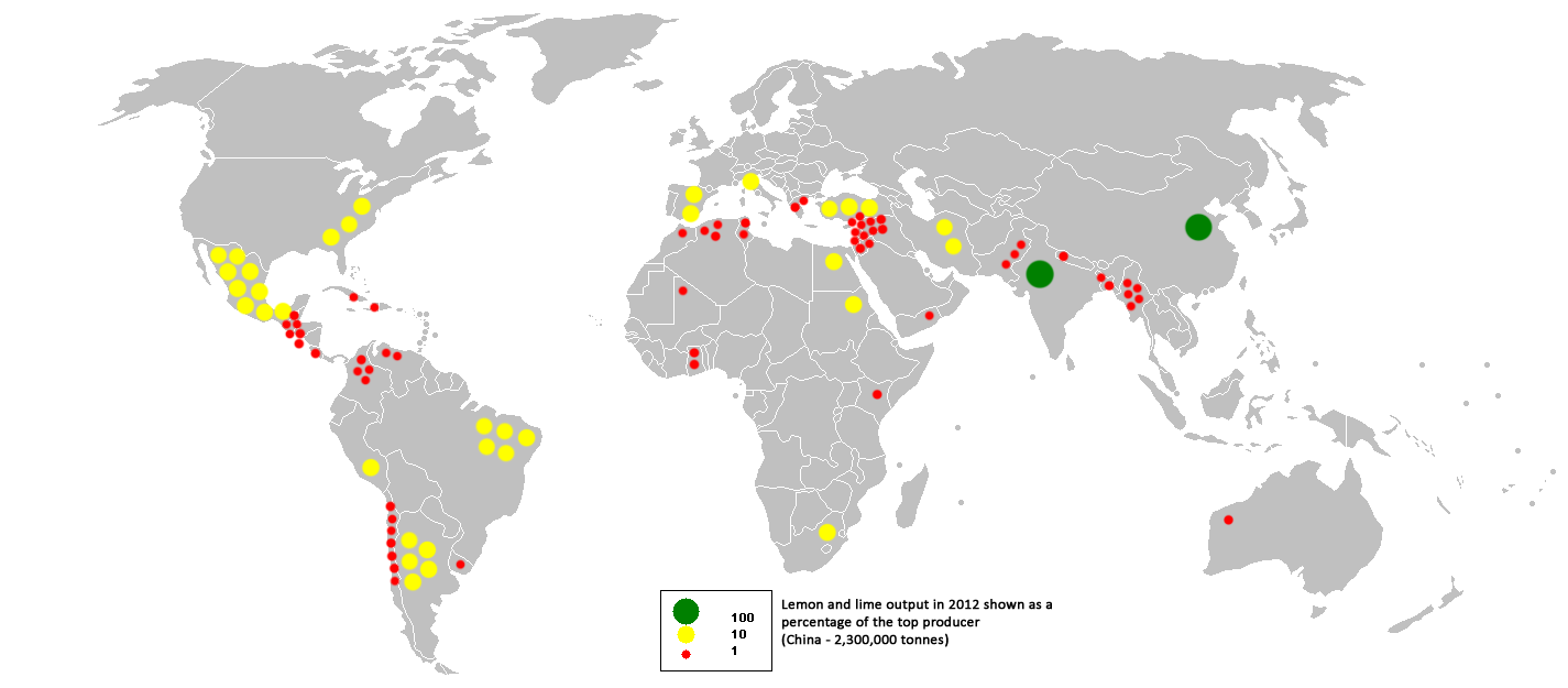 This bubble map shows the global distribution of lemon and lime output in 2012 as a percentage of the top producer (China - 2,300,000 tonnes). This map is consistent with incomplete set of data too as long as the top producer is known. It resolves the accessibility issues faced by colour-coded maps that may not be properly rendered in old computer screens. Data was extracted on 17th March 2015 from Based on Image:BlankMap-World.png (description from original file at English Wikipedia)